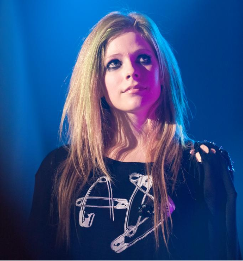 Avril Lavigne performing live on May 2, 2010. Photo was respectively and originally taken by Yun Jie Dai via Flickr.